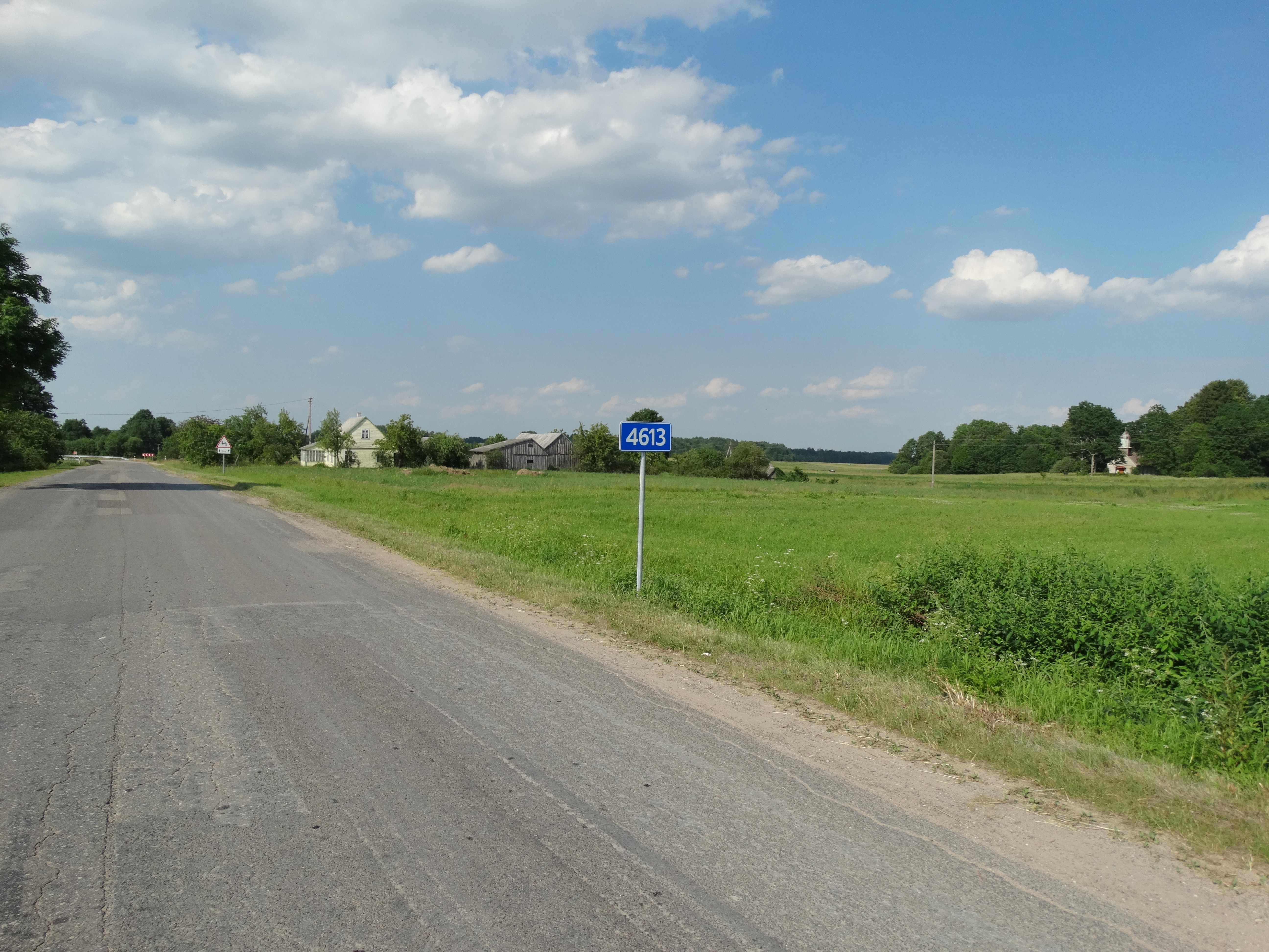 Juozapavas, Telšiai District, Lithuania